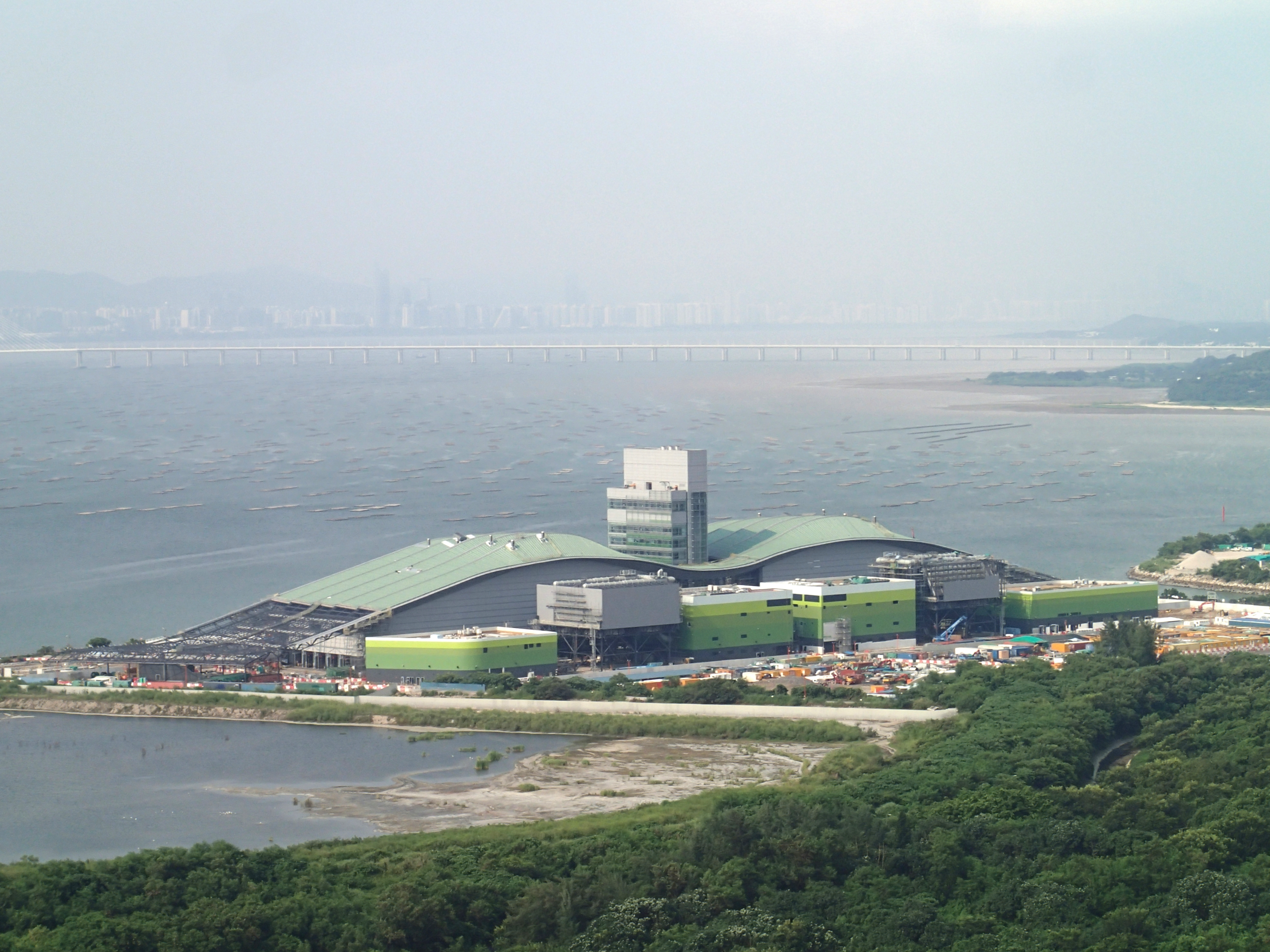 T · PARK